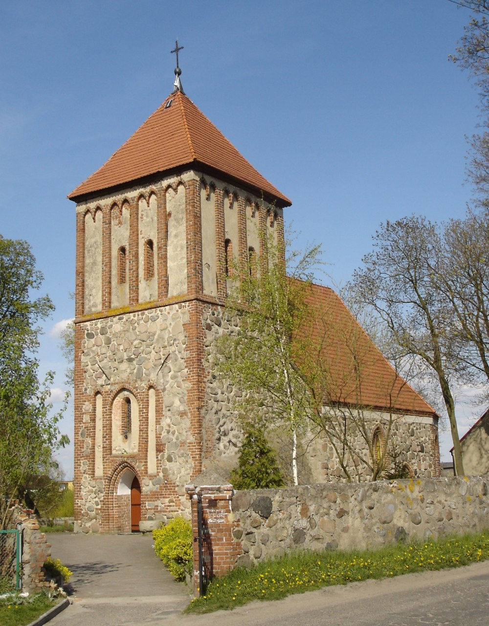 st. Peter and Paul church in Grzedzice, Poland